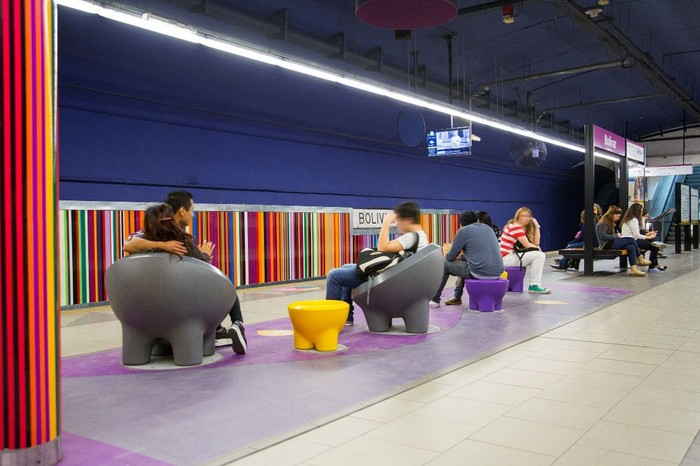 Bolivar station on Line E of the Buenos Aires Underground.